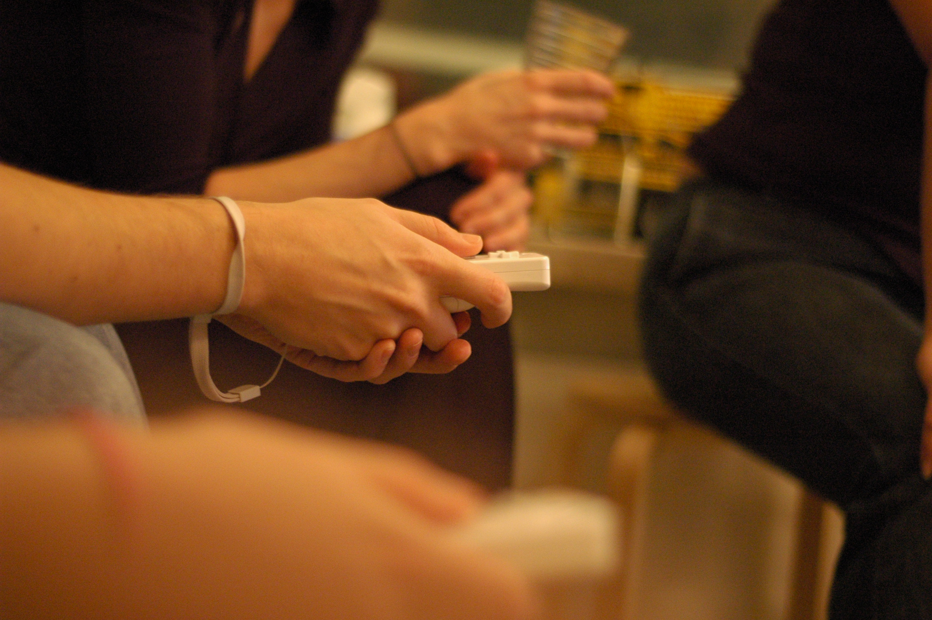 A person holding the Wii Remote.